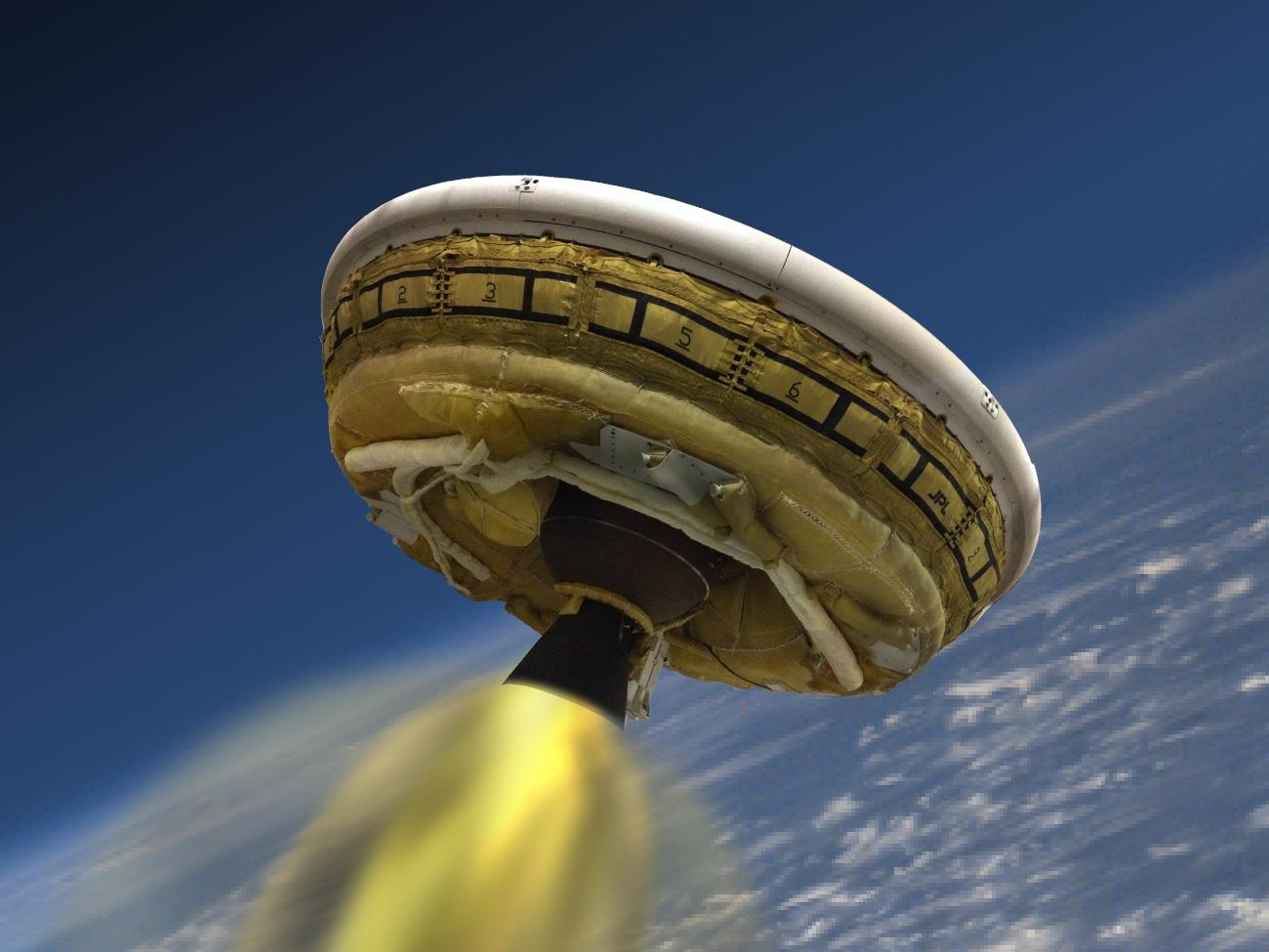 This artist's concept shows the test vehicle for NASA's Low-Density Supersonic Decelerator (LDSD), designed to test landing technologies for future Mars missions. A balloon will lift the vehicle to high altitudes, where a rocket will take it even higher, to the top of the stratosphere, at several times the speed of sound. The Low-Density Supersonic Decelerator Project is managed by JPL for NASA's Space Technology Mission Directorate in Washington.